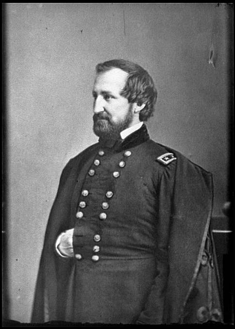 Portrait of Maj. Gen. William S. Rosecrans, officer of the Federal Army. Harper's Weekly, vol. 6, 1862, p. 705.